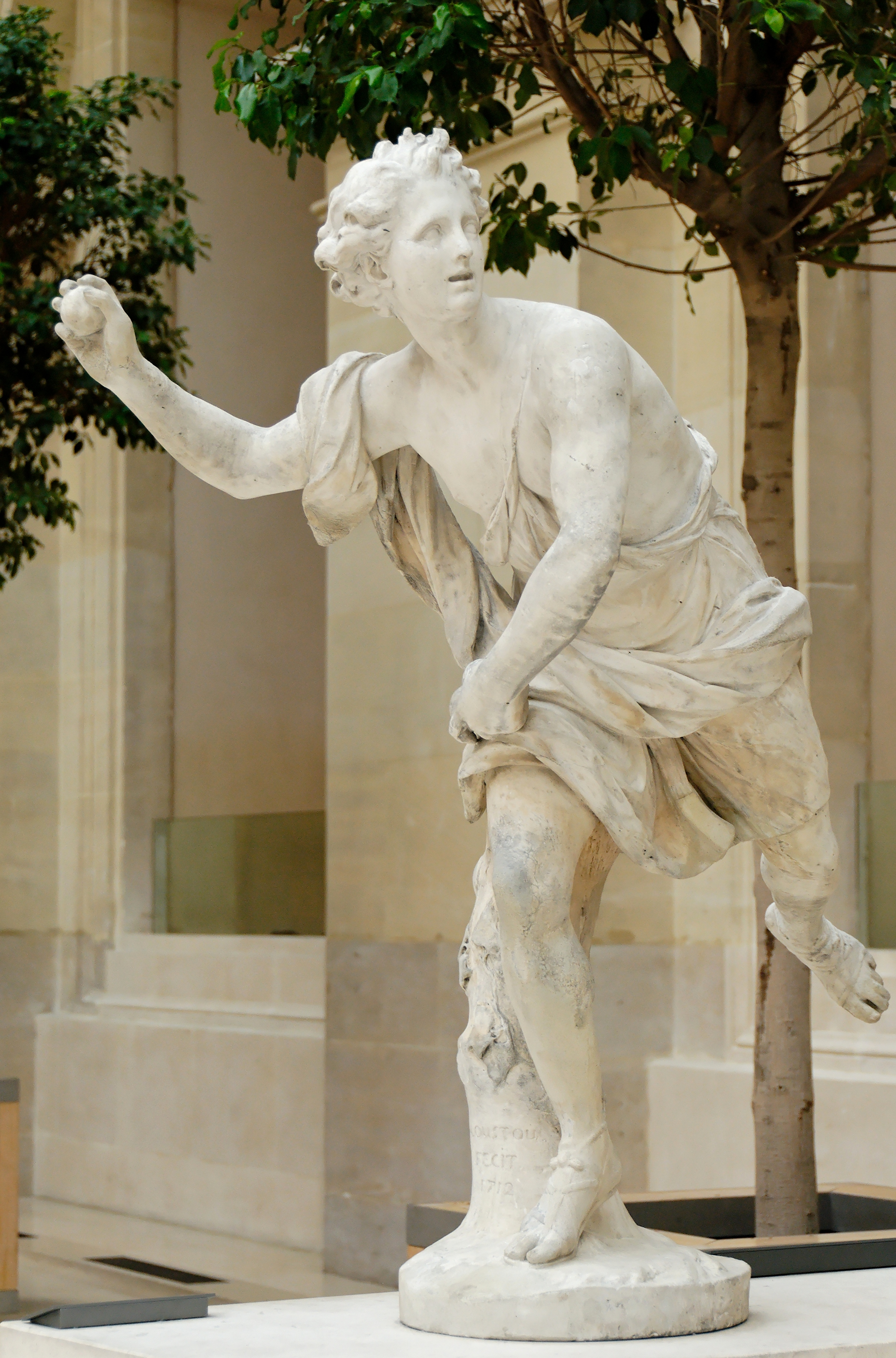 Hippomenes. Marble, before 1714. Commissioned as a pendant to MR 1804 representing Atalanta, for the decoration of the park of Marly, transferred in 1798 to the Tuileries Gardens.